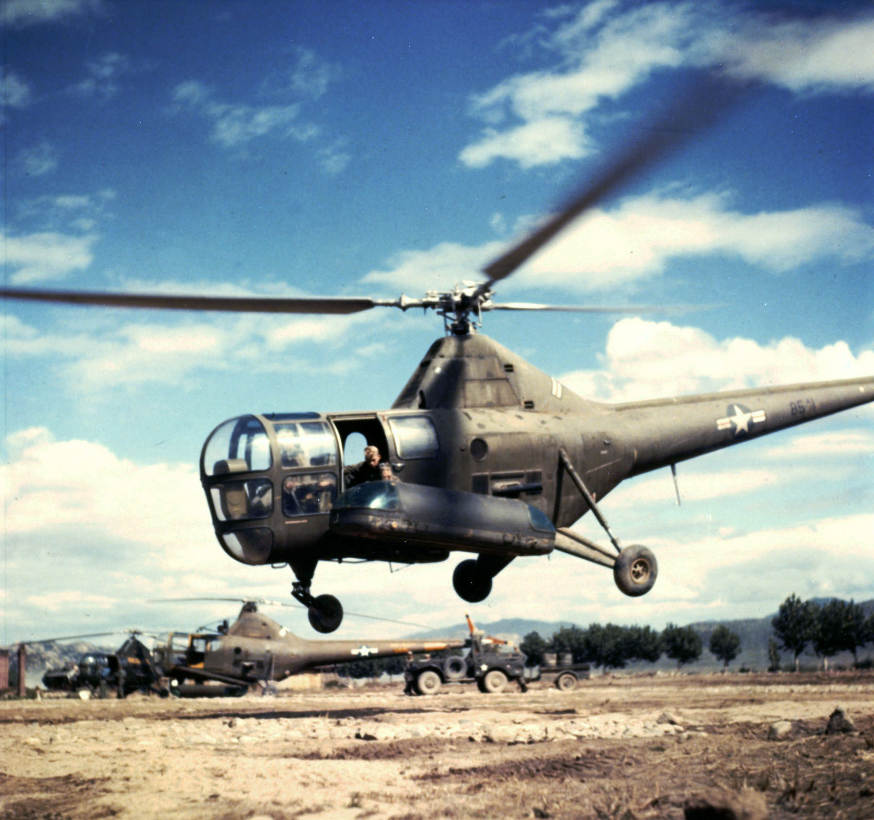 A U.S. Air Force Sikorsky H-5 performing aeromedical evacuation during the Korean War.